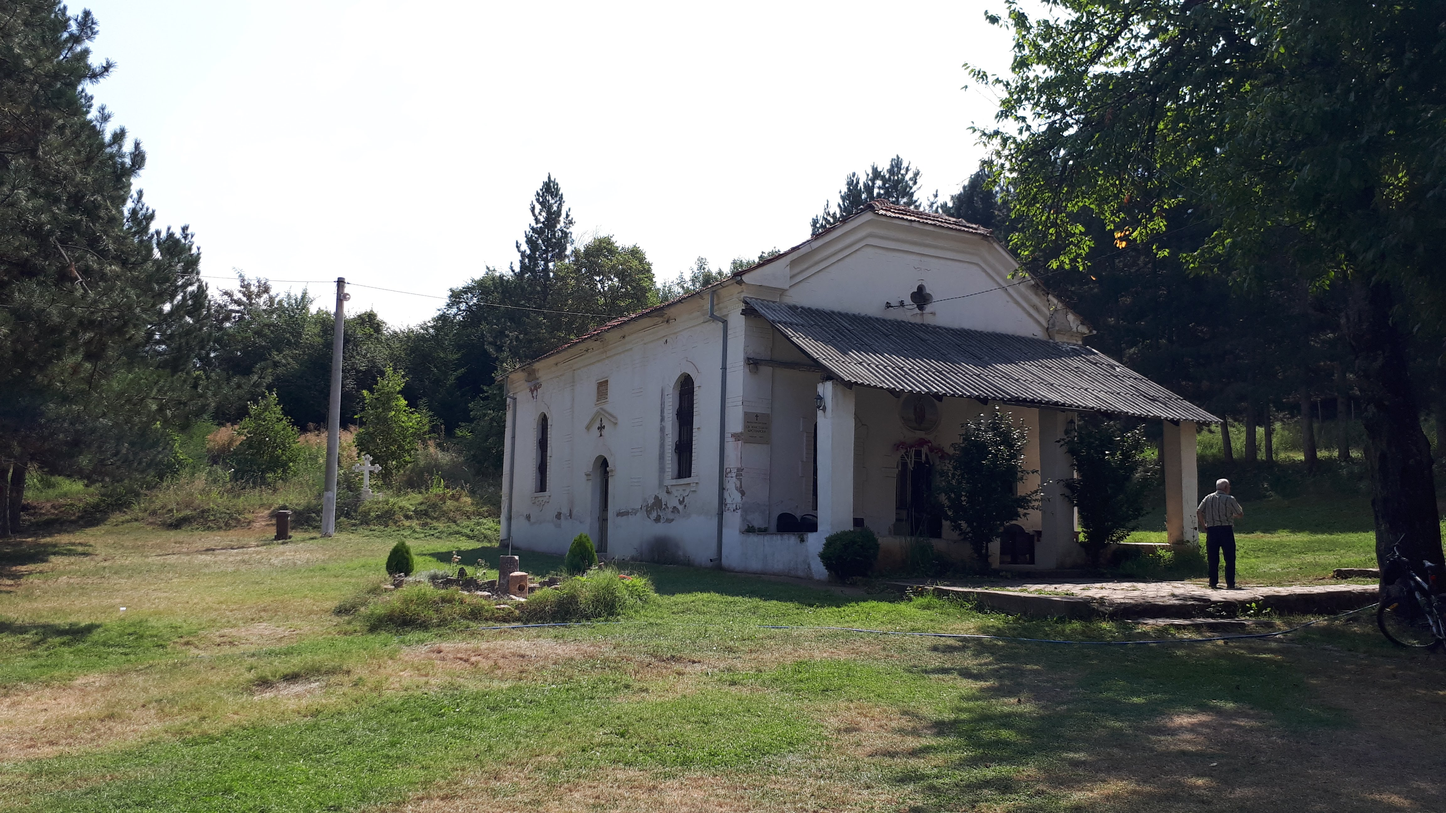 View of the St. Christopher Church in the village Krstoar